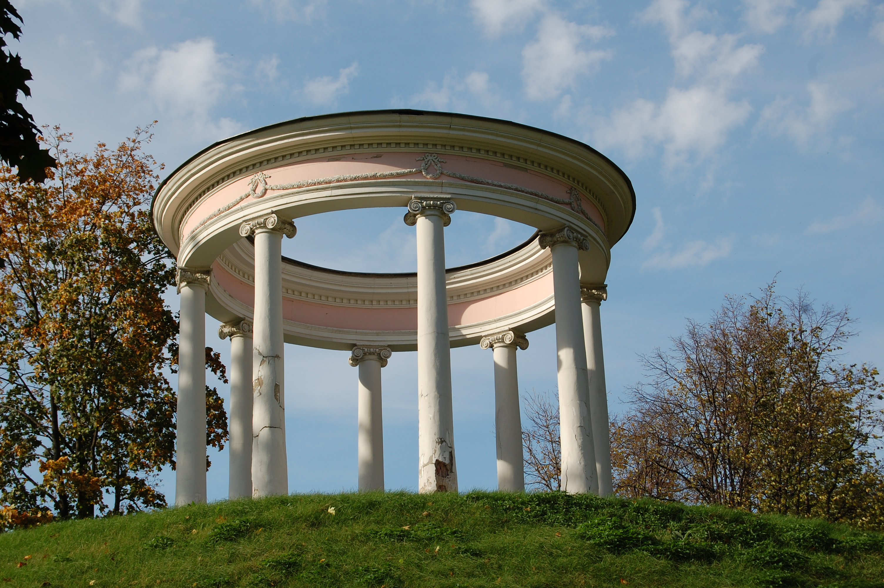 Pavilion in Ostankino, Moscow